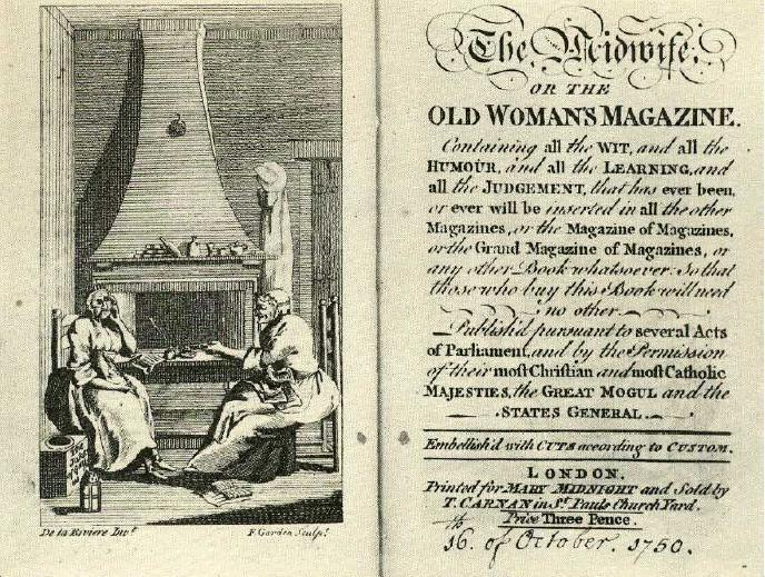 Title page to Christopher Smart's magazine, The Midwife.